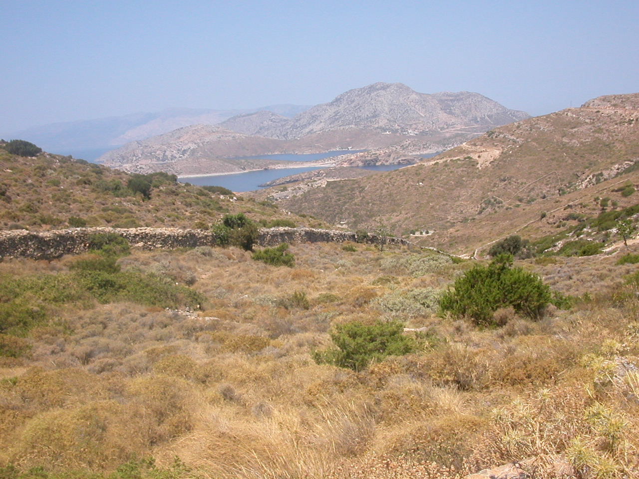 front: Island of Fourni, middle: Island Thymena, background: Ikaria